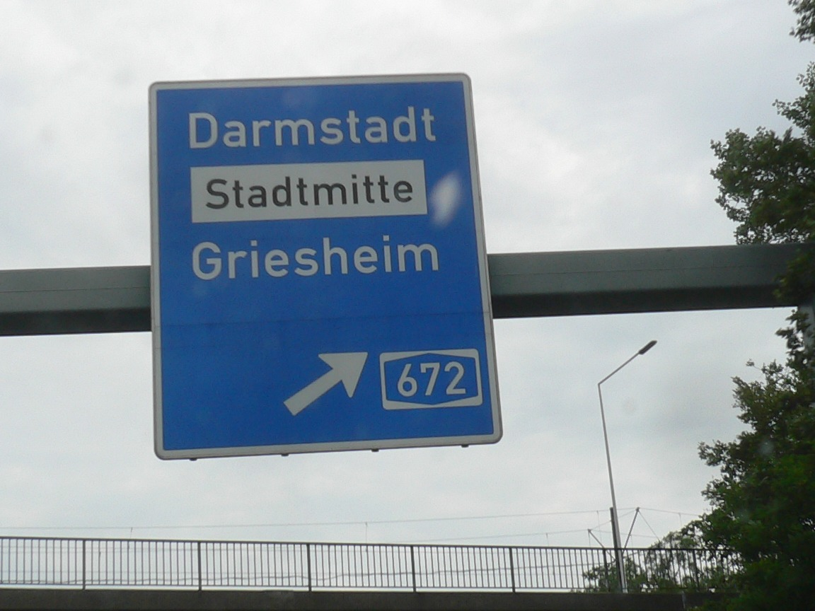 A 672 motorway sign (on A 5) in Darmstadt, Germany. Cropped.